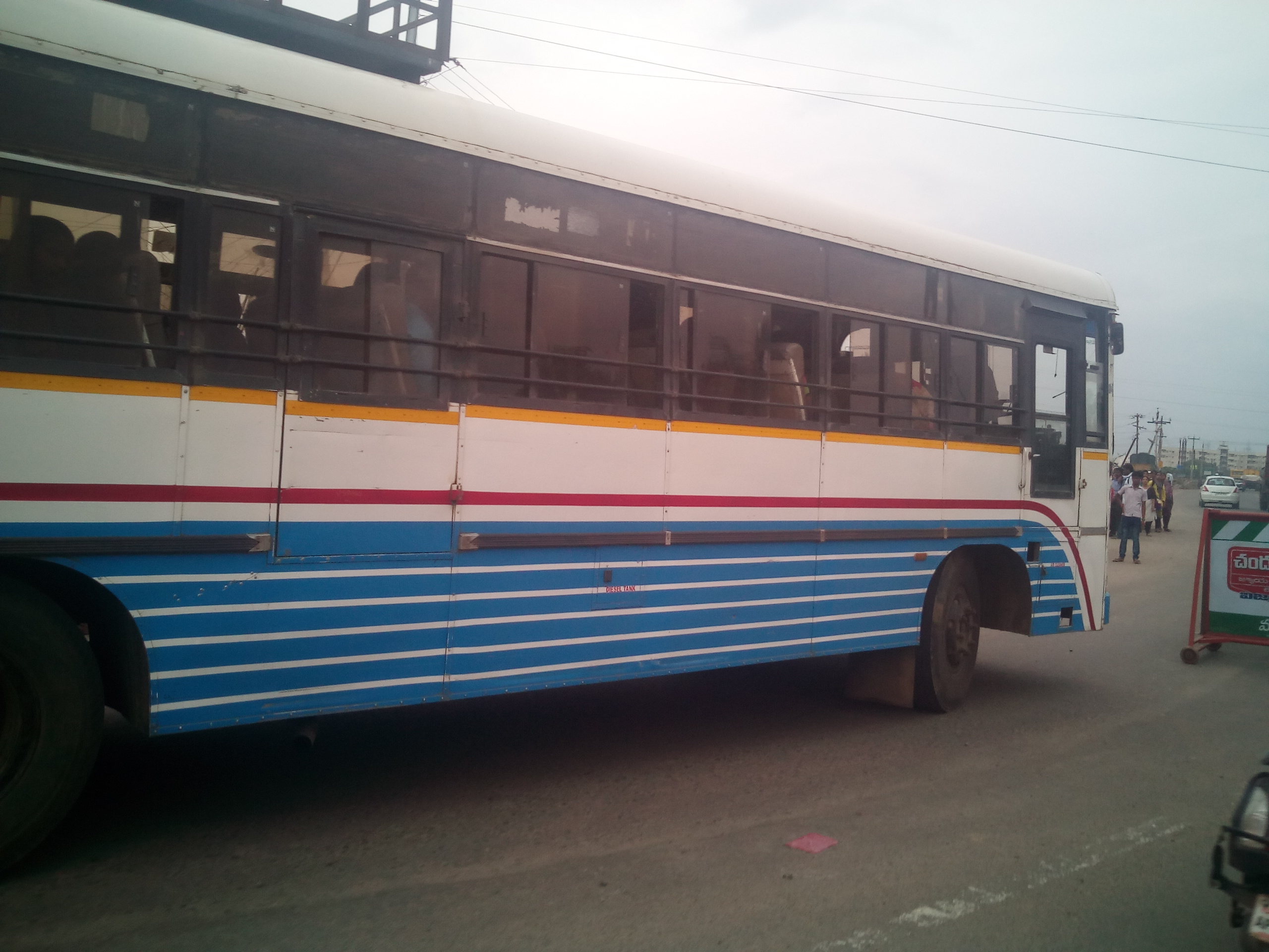 APSRTC bus at Ibrahimpatnam bus stop in Krishna district